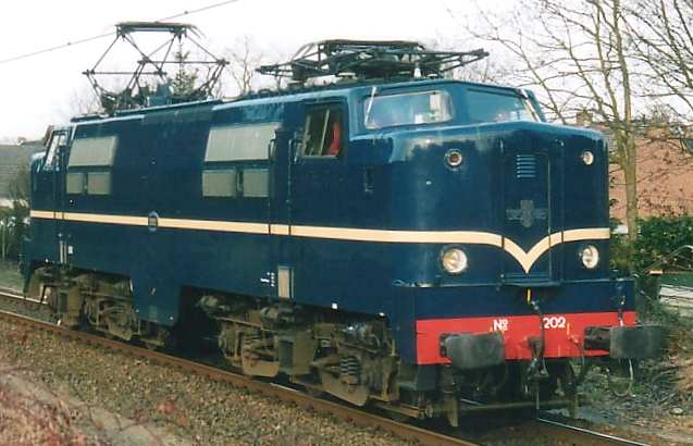 Preserved locomotive 1202 of the Dutch National Railwaymuseum at Soest on the run from Watergraafsmeer to Arhem, the Netherlands.